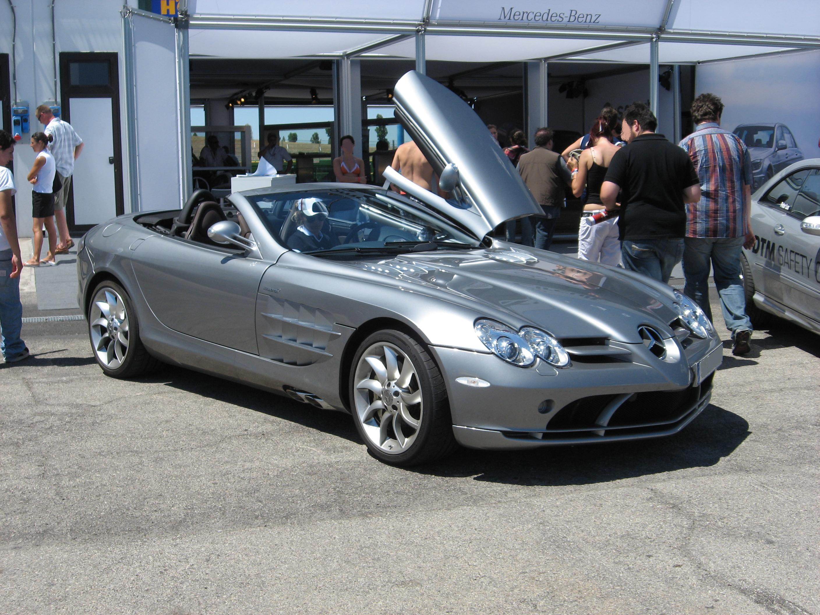 Subject: Mercedes-Benz SLR McLaren Roadster Author: Luc106 Date: July 15th, 2007 Place/Country: "Santa Monica" Circuit, Misano Adriatica (RN), Italy Event: Auto Kit Show 2007 I release all rights in the public domain.